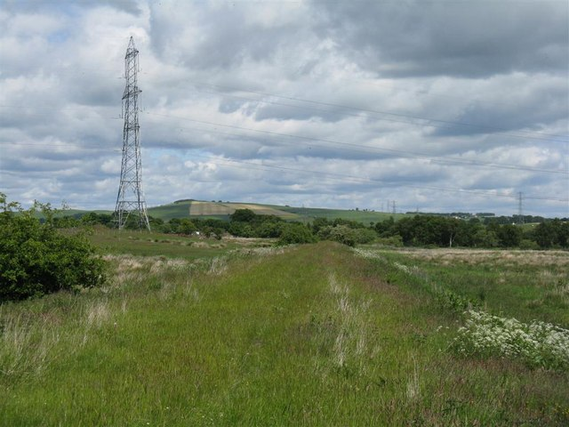 Dismantled railway Looking NE along the old railway that crossed the moorland between Coalburn and Lesmahagow.